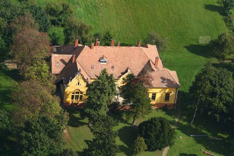 Kemeneshőgyész, Hungary, aerial photography (Radó Mansion)